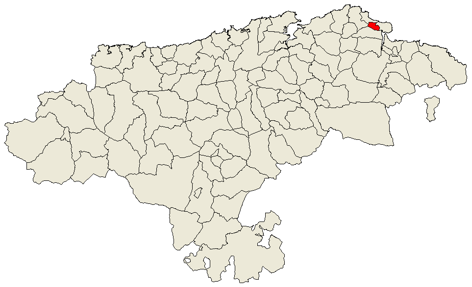 Map of the municipality of Argoños, Cantabria, Spain